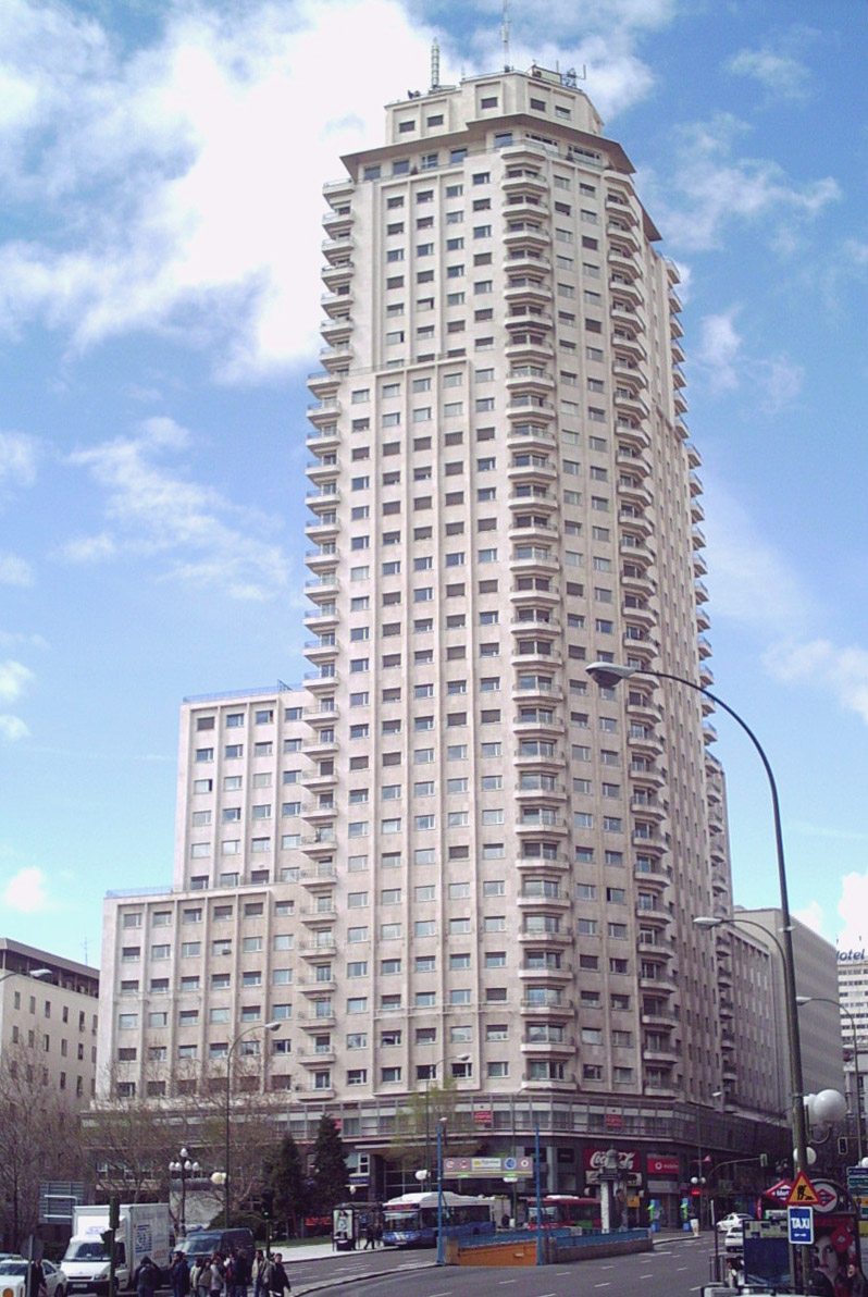 Torre de Madrid (Madrid, Spain, 1st phase: 1954–1957, 2nd phase: 1958–1960). Architect: Julián Otamendi Machimbarrena.